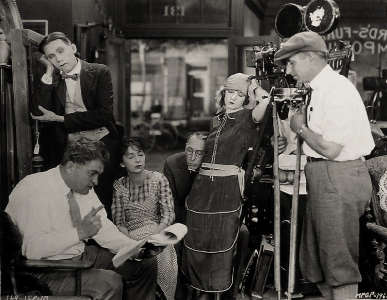 Left to right: director Edward F. Cline (with script), Victor Potel, Gale Henry, Tully Marshall, Viola Dana, and cinematographer John Arnold on the set of Along Came Ruth (1924) - publicity still